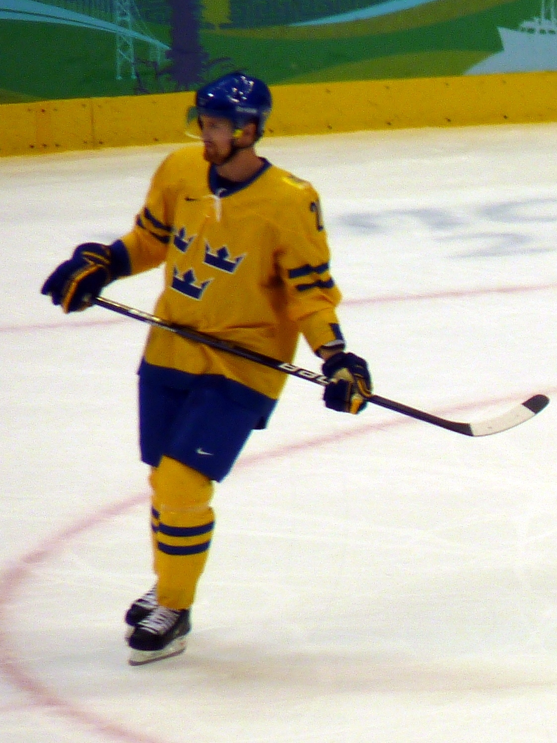 Swedish forward Henrik Sedin during the quarterfinal game against Slovakia in the 2010 Winter Olymics.